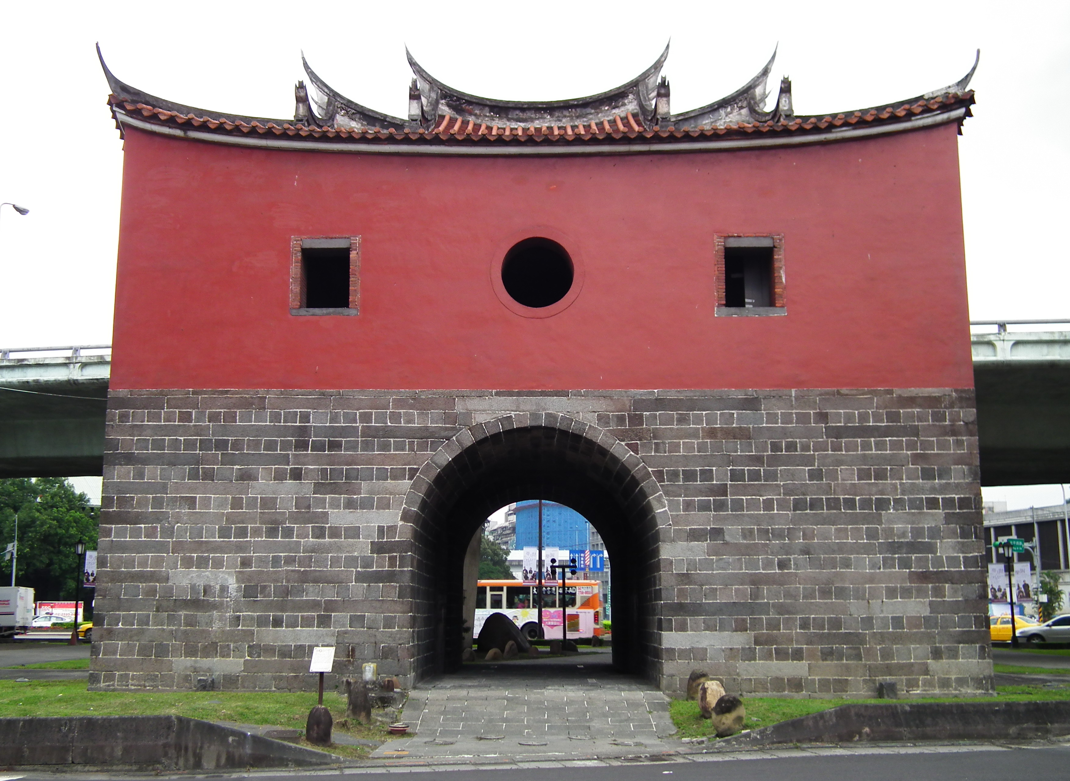 北門 North Gate of Taipei City Wall